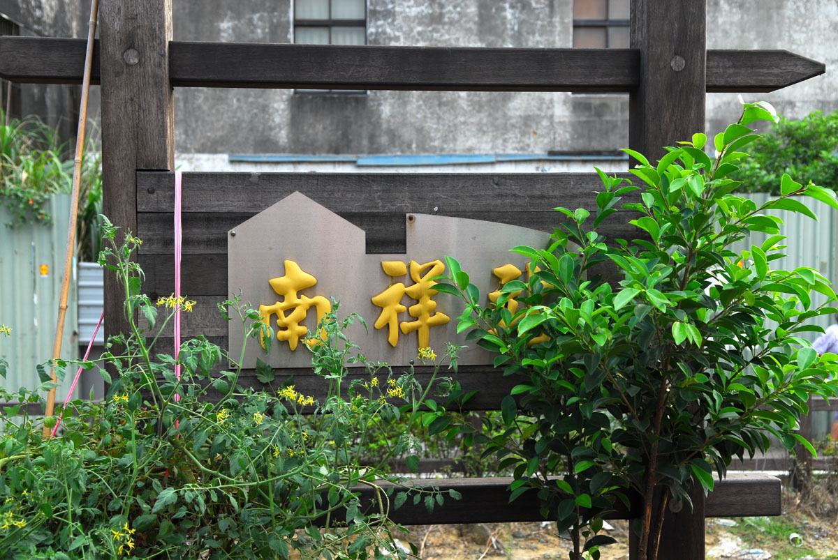 Nanshiang Station is a small station on Linkou Line. In the photo showed the name sign of this station partially hidden behind the bushes.